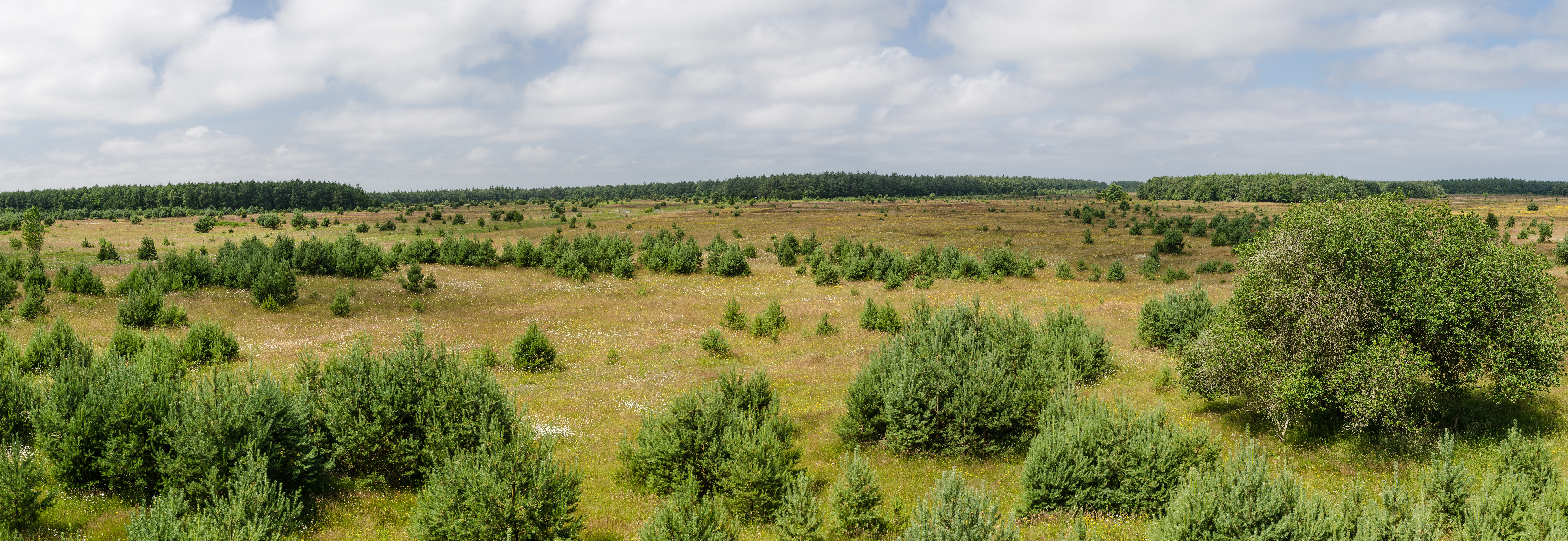 Panoramic view of Nature reserve Küstenheide near Altenwalde, Cuxhaven, Germany